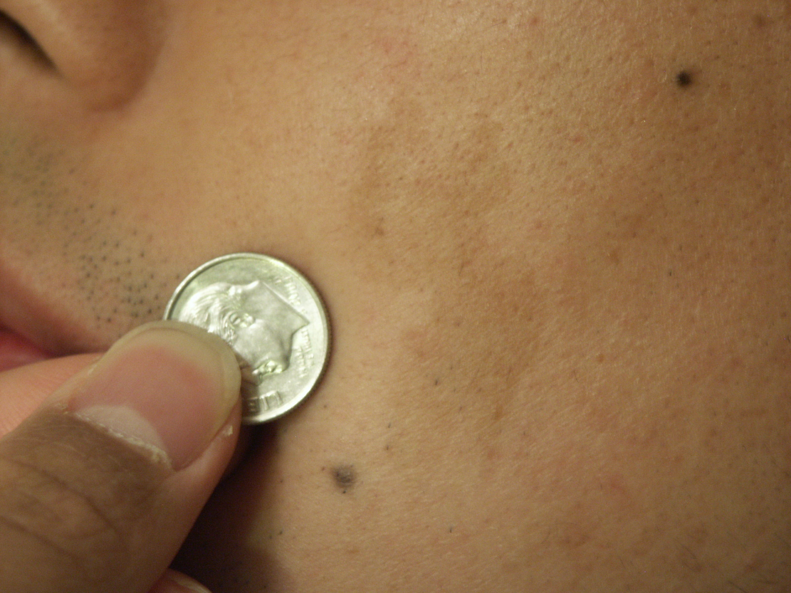 A cafe au lait birthmark on the left cheek of a patient, with a U.S. dime used to indicate scale